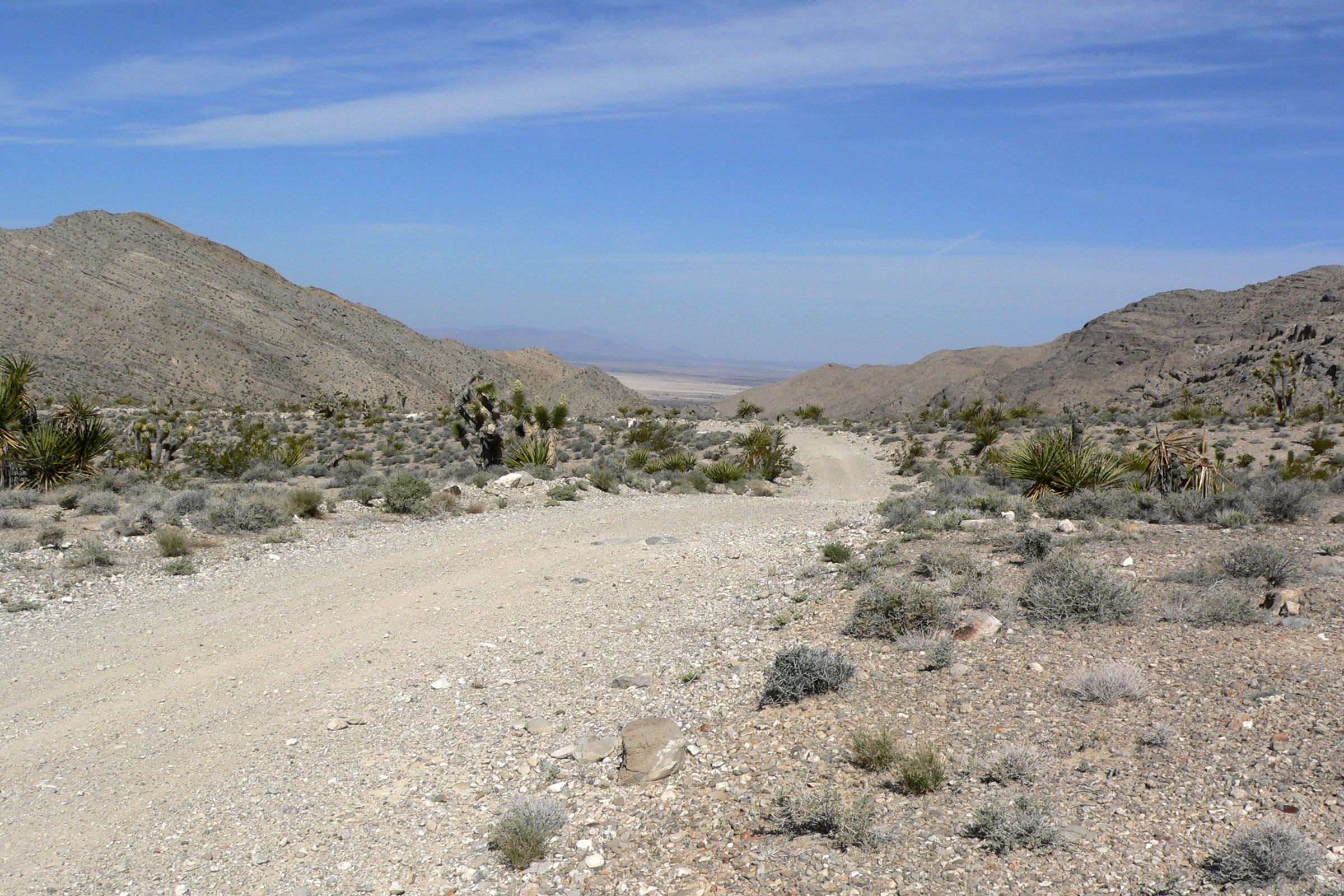 At State Line Pass looking northwest, northwest of Primm, Nevada